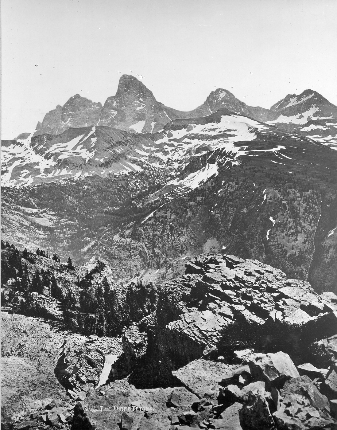 The Teton Range as viewed from west of the range from Pierre's Hole now known as Teton Valley by William Henry Jackson in 1872.